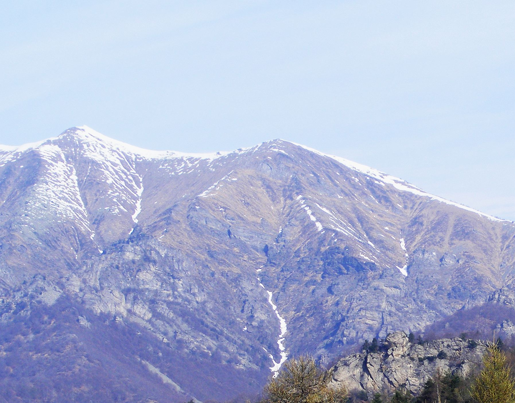 Mounts Aquila (on the left) and Cugno dell'Alpet (TO, Italy) from Colle del Crò (San Pietro Vallemina)